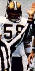 New Orleans Saints middle linebacker Joe Federspiel pictured in a defensive play against the Philadelphia Eagles during a November 6, 1977 home game at Veterans Stadium.